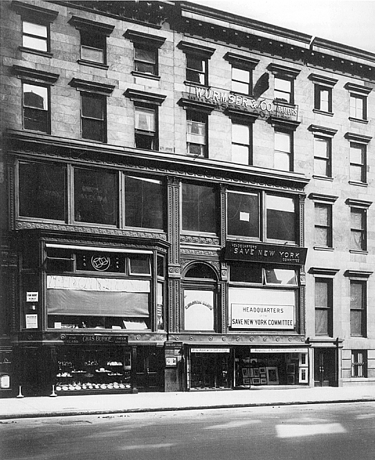 291 Fifth Avenue. View of the Exterior